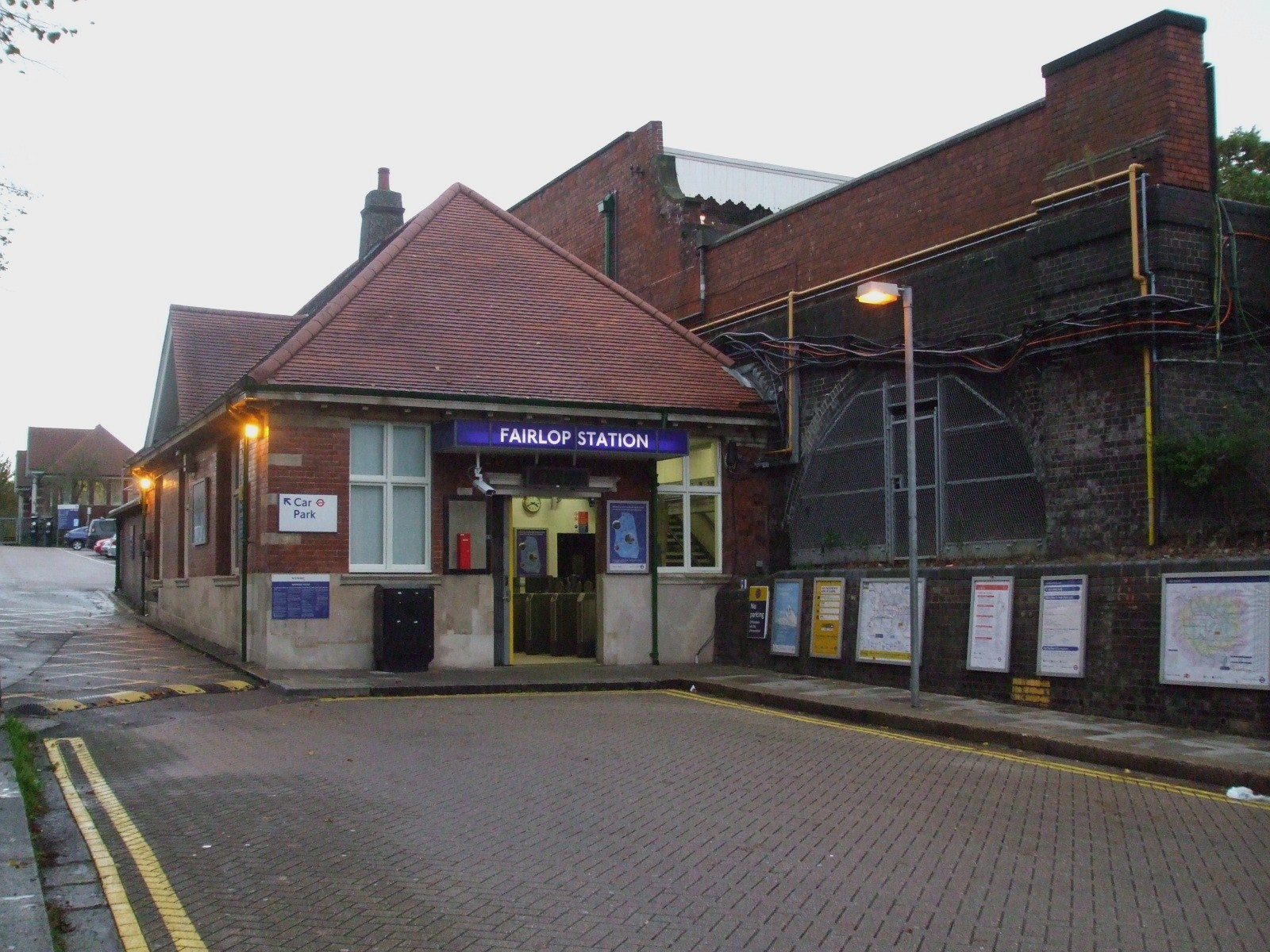 Fairlop tube station